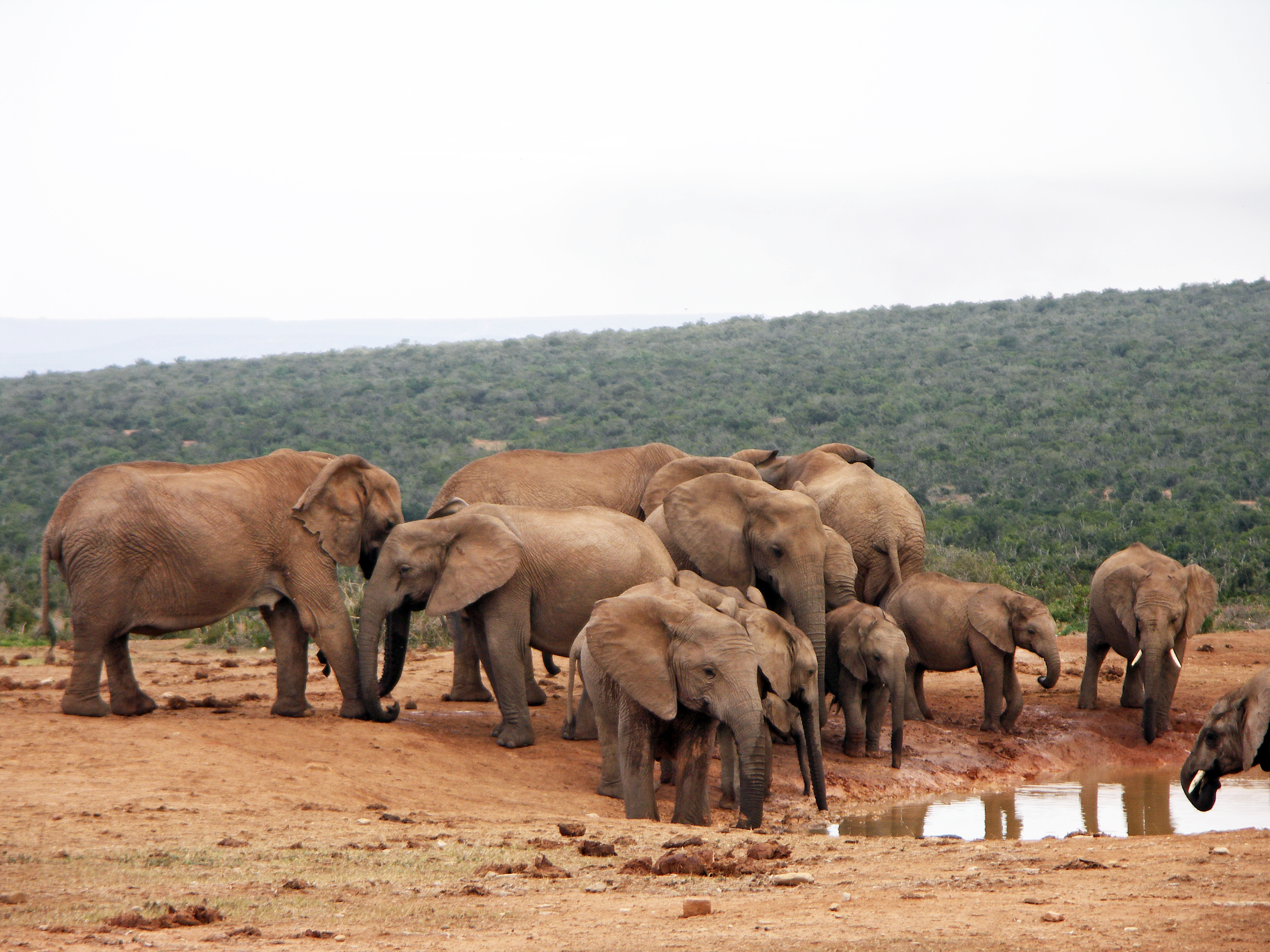 Elephant at the Hapoor Dam in the Addo Elephant National Park